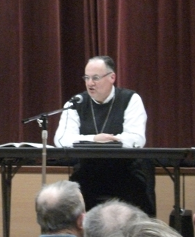 Bruno Grua, Bishop of Saint-Flour, during a religious meeting in Salers (Cantal), 2011, March, 16th